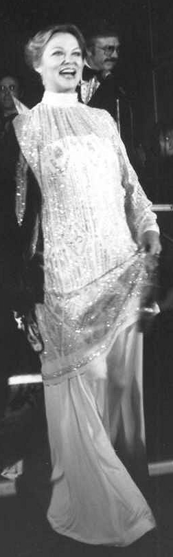 Photo of actress Louise Fletcher at the National Film Society convention.